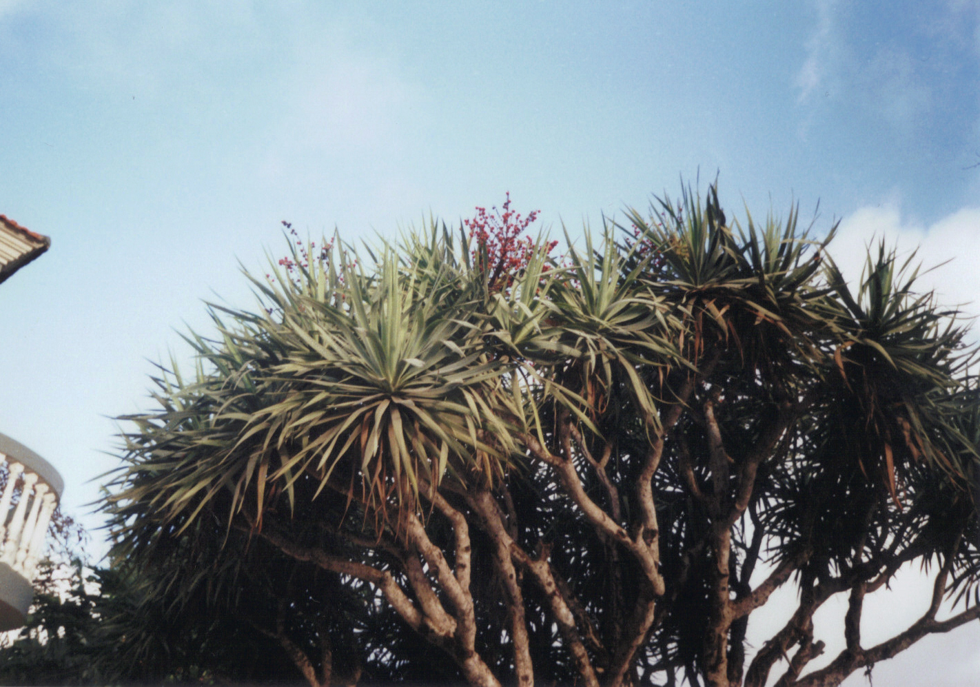 Dragontree in Vila Nova Sintra, Ilha Brava, Cabe Verde.